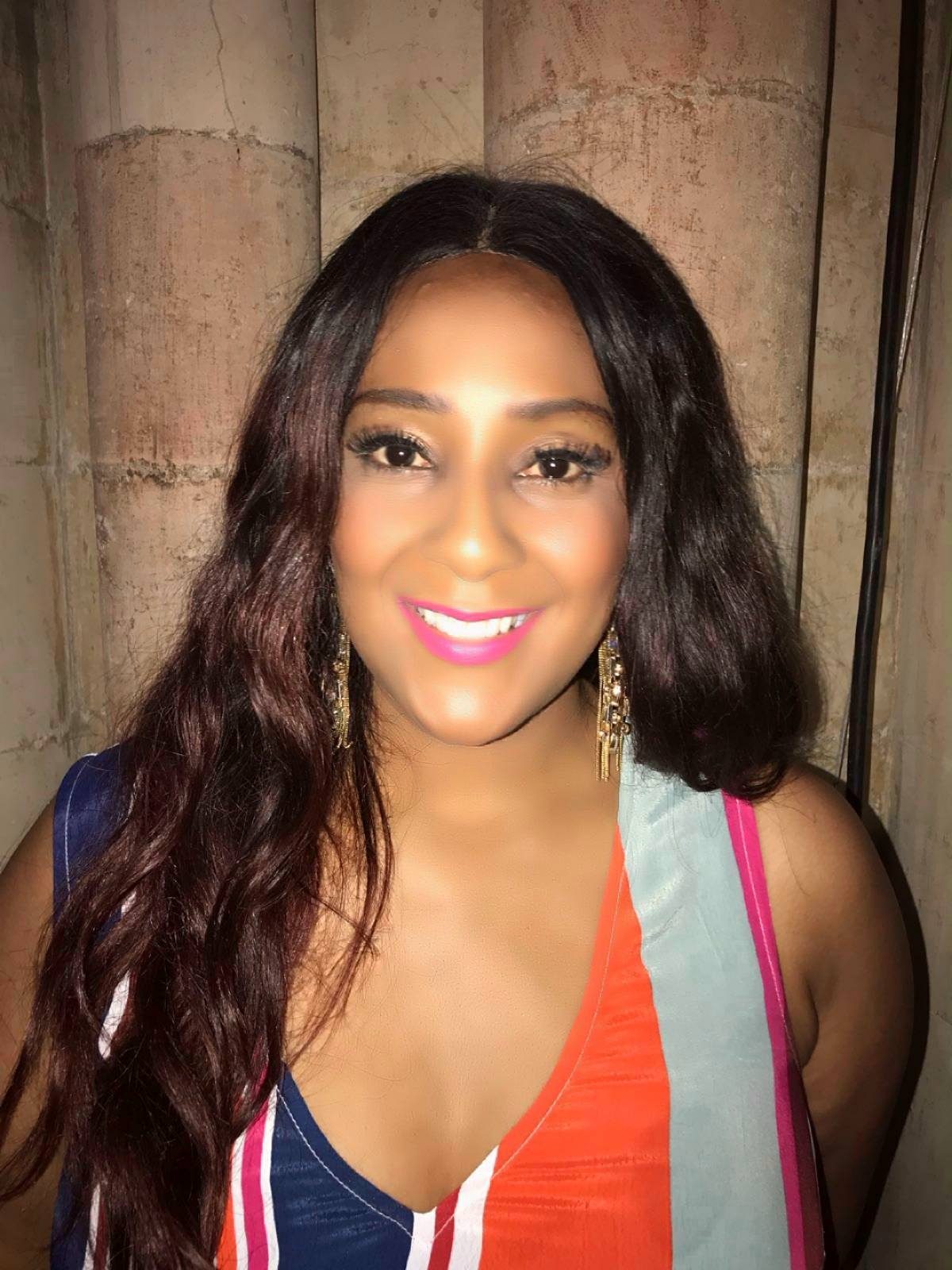 Lurine at the NHS 70th Anniversary Celebrations in Yorkshire 2018